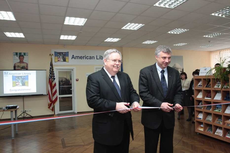 AmericanLib_open_Feb18_2010